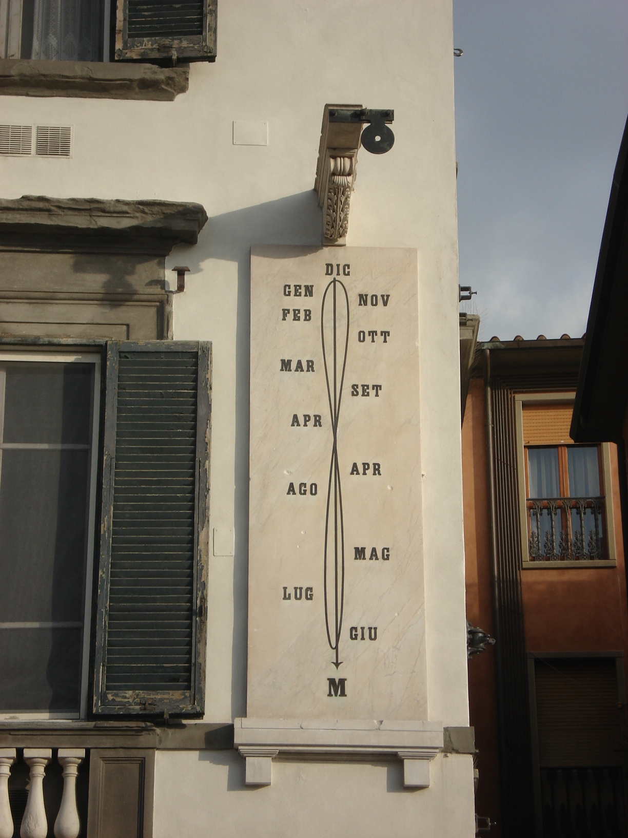 Sundial (analemma)on Royal Victoria Hotel facade, in Pisa.